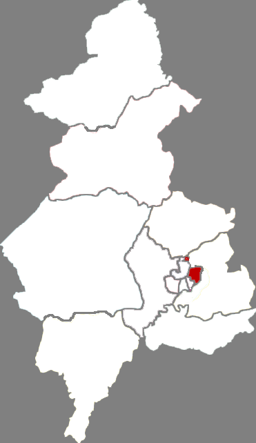 Location of Dadong district in Shenyang City, China